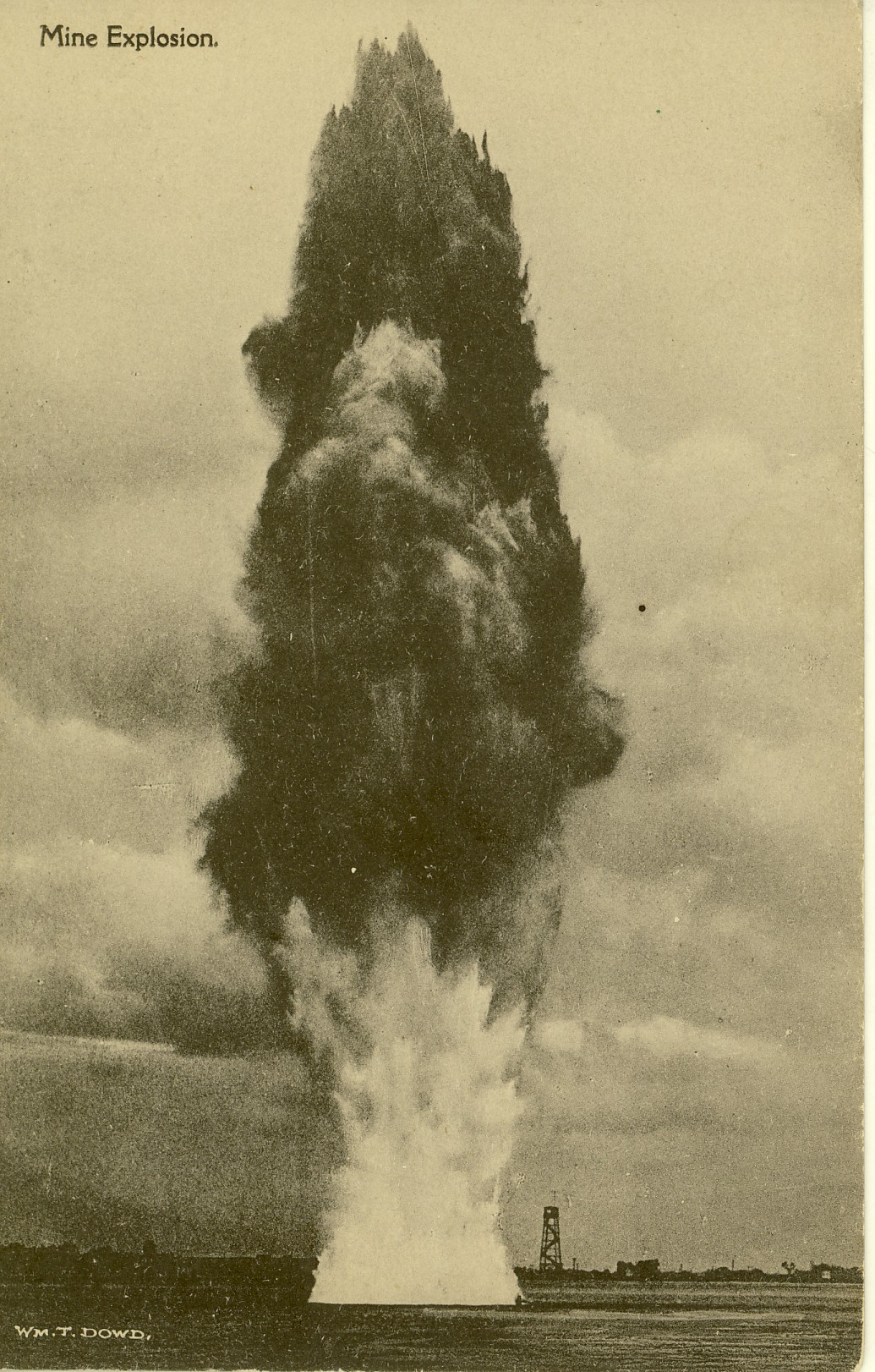 Local Accession Number: PC 175 Description: Postcard photograph of a mine explosion at Fort Greble, RI during World War I. Photographer: Unknown Source: Donateed by Jean Brannum Nichols Size: 5x3 Medium: Print, Black and White Date: 1918?